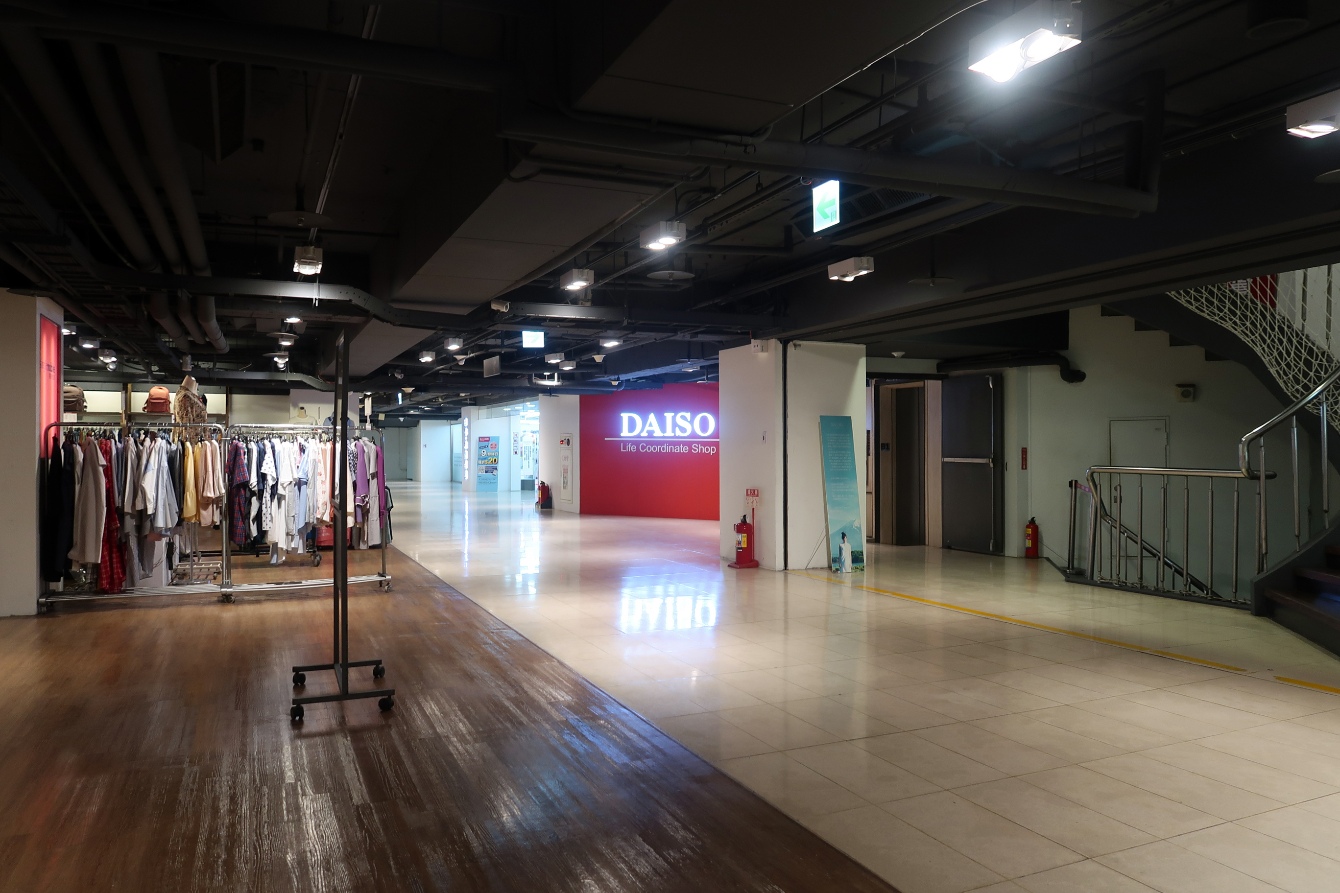 Ex Lung Shin Department Stores B1